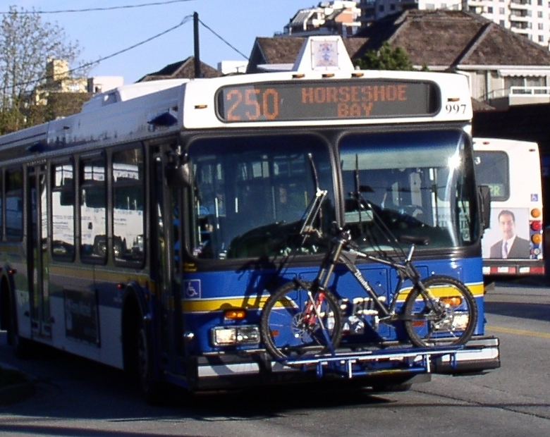 West Vancouver Blue Bus #997